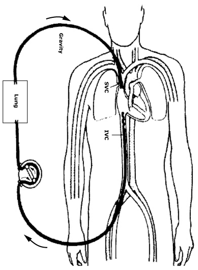 Right common femoral vein drainage and right internal jugular vein infusion.